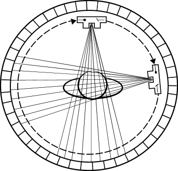 Computed tomography fourth generation